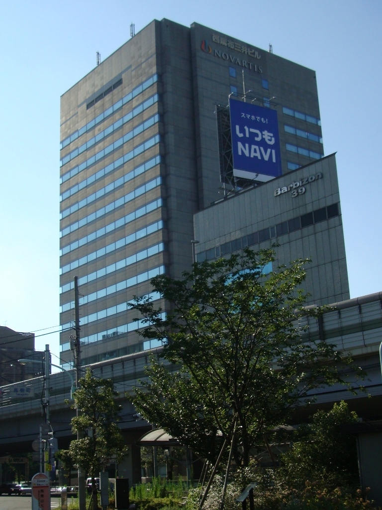 Mitsui Nishiazabu Building, Takagicho, Tokyo, completed in 1988